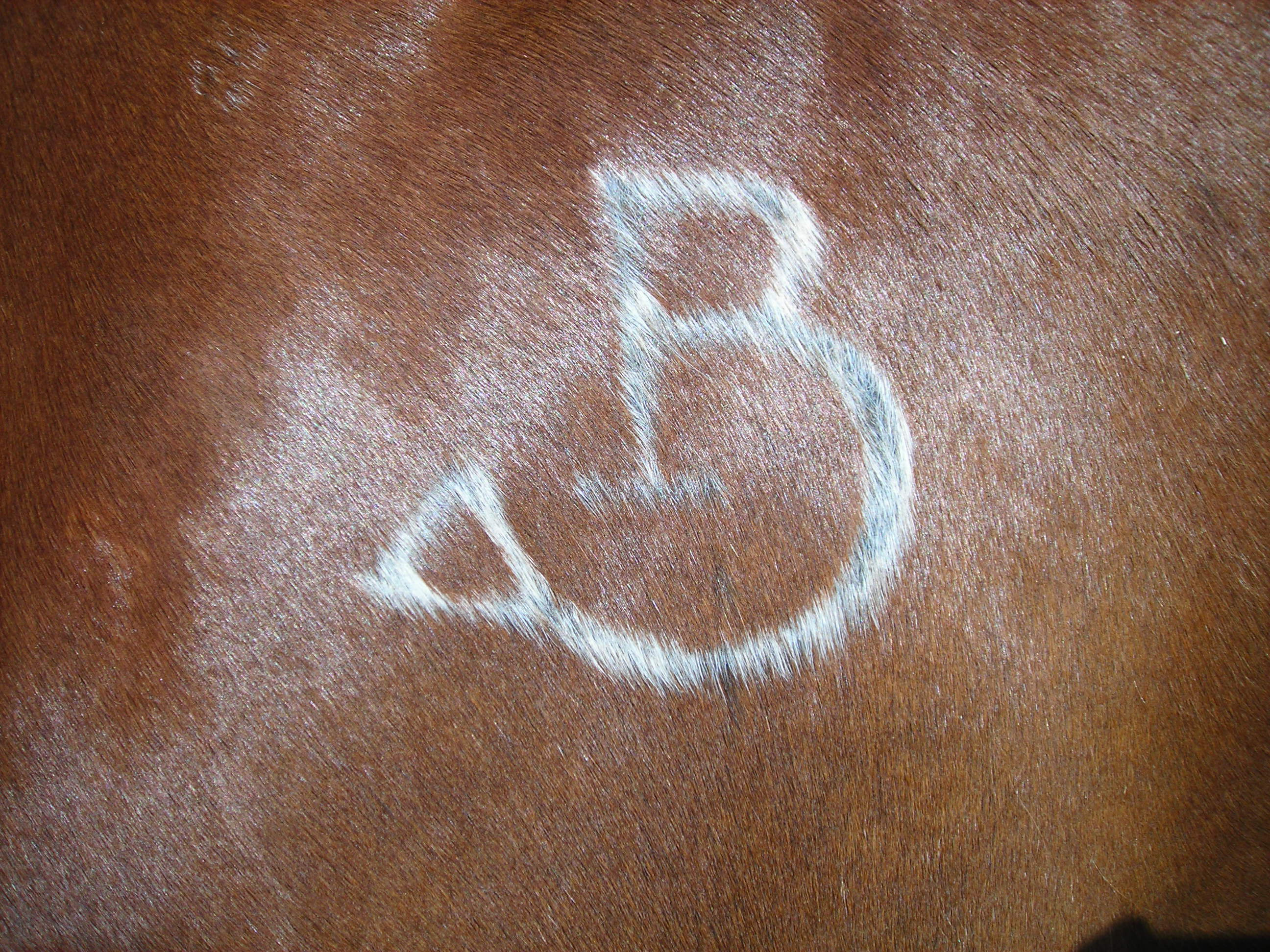 The freeze brand on Kool Little Leo's left shoulder.